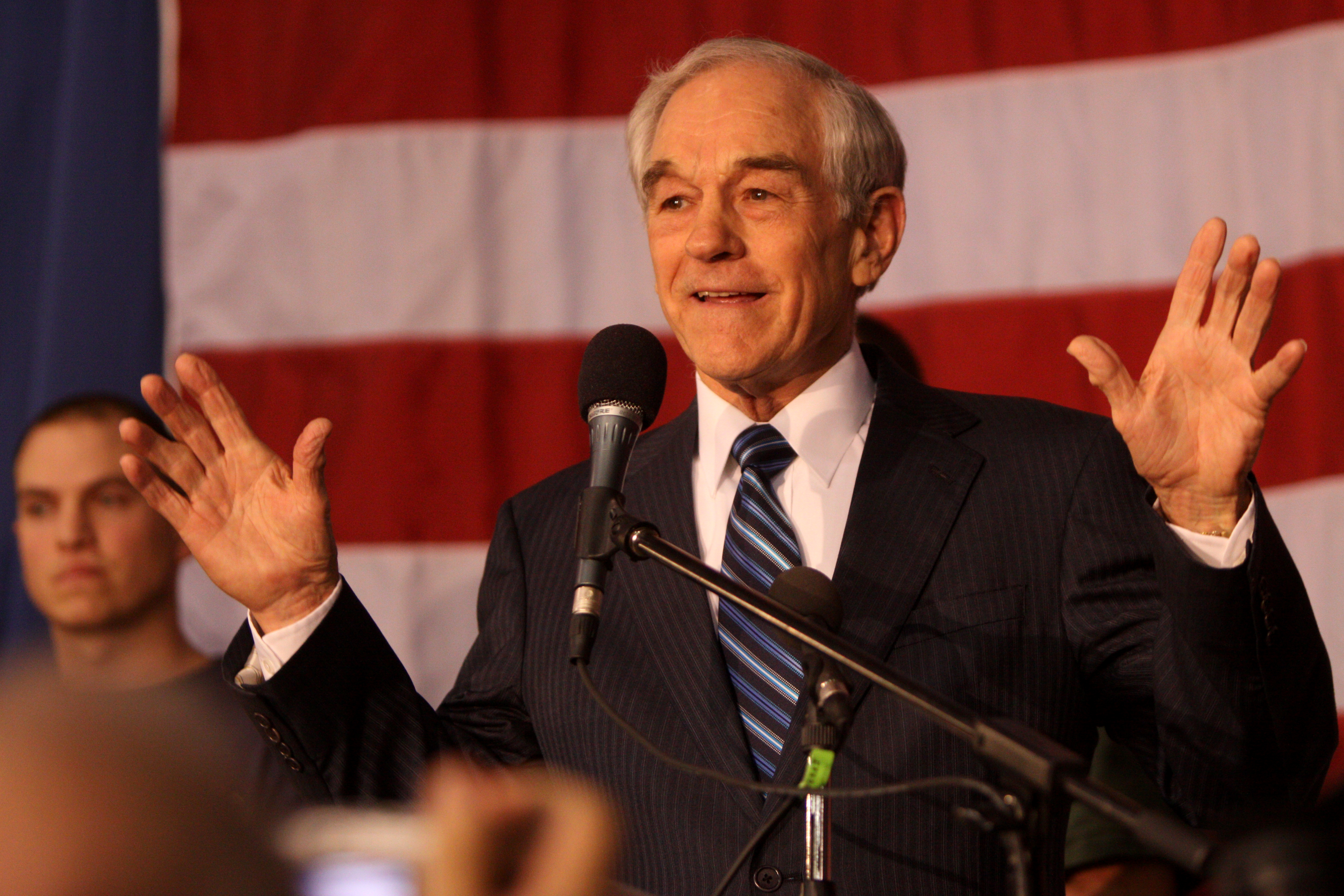 Ron Paul speaking to supporters at a Veterans rally in Des Moines, Iowa.